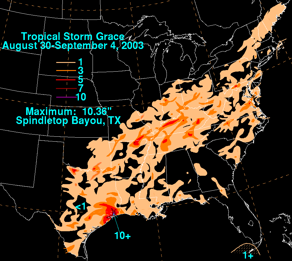 Rainfall produced by Tropical Storm Grace during August and September 2003.